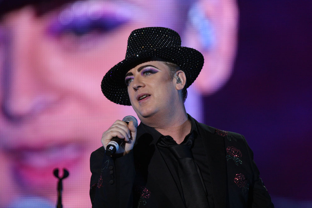 Sydney’s biggest New Year’s Eve party: Jamiroquai, Culture Club and Pet Shop Boys, as well as Australia’s very own Guy Sebastian, Pseudo Echo and Lyndsey Ollard